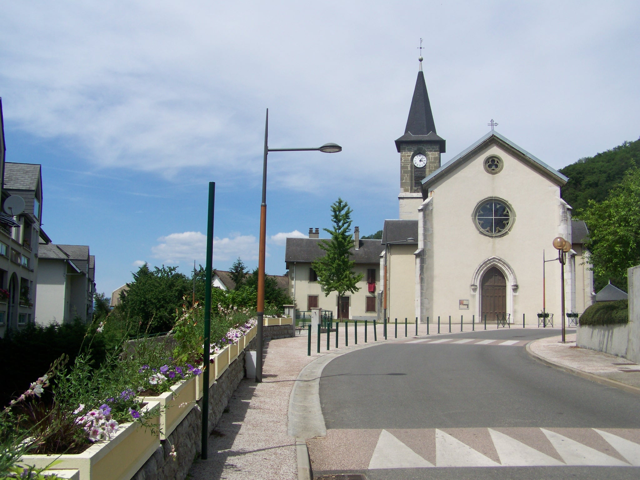 Main road and Saint-Martin church of French commune of Voglans near Chambéry in Savoie.